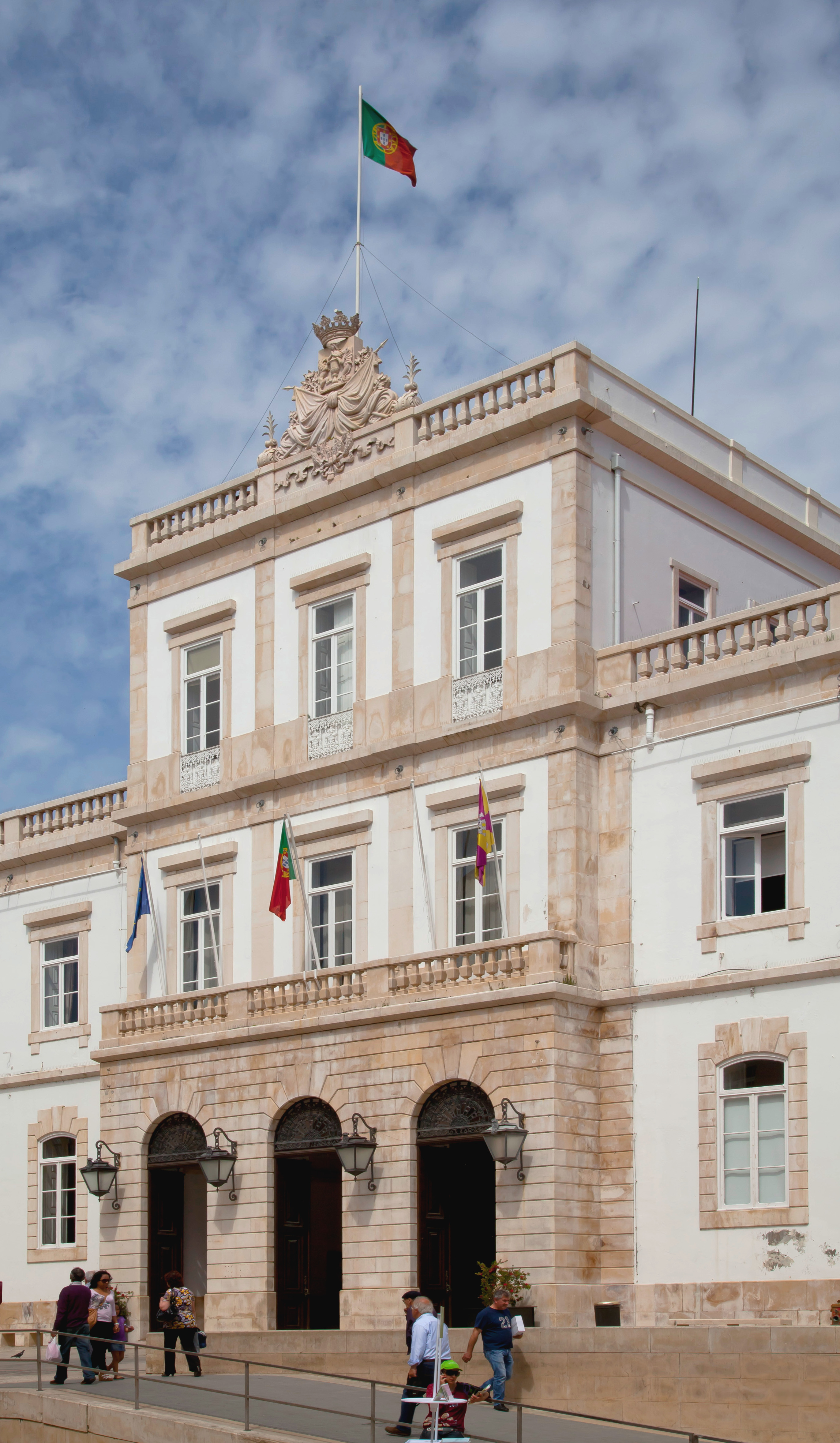 Town Hall, Coimbra, Portugal